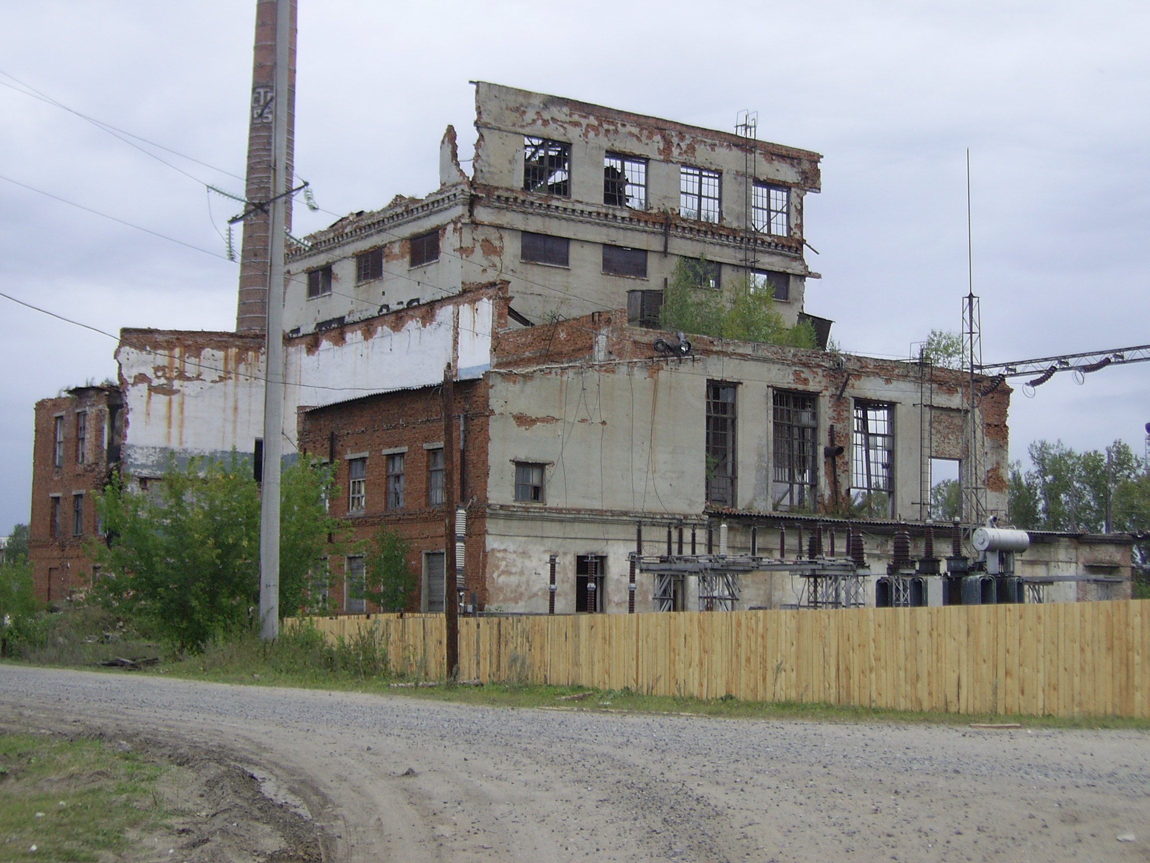 2005. Uspenskaya paper mill.